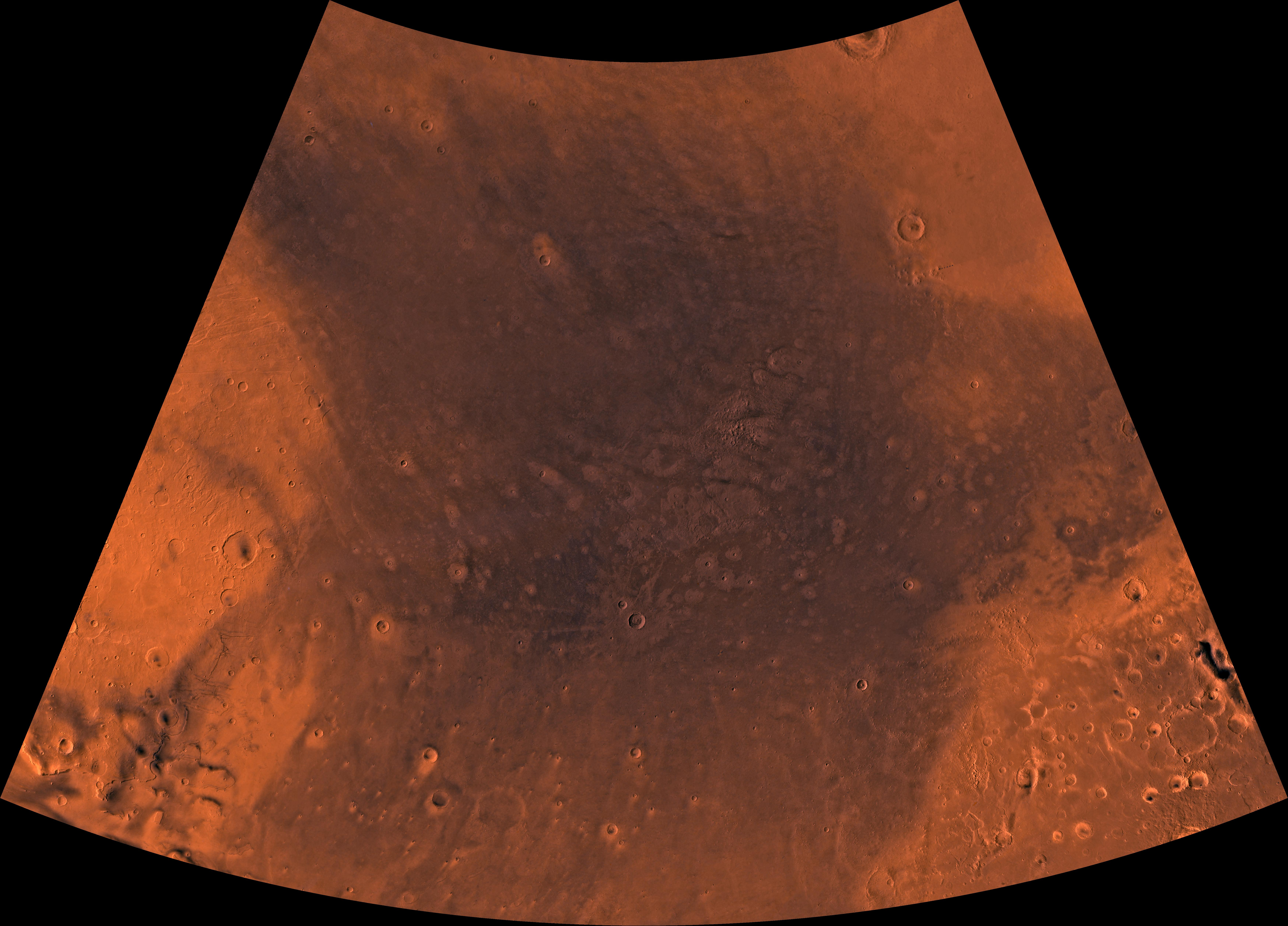 PIA00164: MC-4 Mare Acidalium Region Mars digital-image mosaic merged with color of the MC-4 quadrangle, Mare Acidalium region of Mars. The central part is characterized by dark depression--the northern Chryse basin, which contains relatively smooth plains where several large outflow channels terminate. The depression is partly bounded to the southwest by the highly faulted and heavily cratered Tempe Terra province, to the southeast by the heavily cratered Arabia Terra province, and to the north by relatively smooth plains of Vastitas Borealis. Latitude range 30 to 65 degrees, longitude range 0 to 60 degrees.